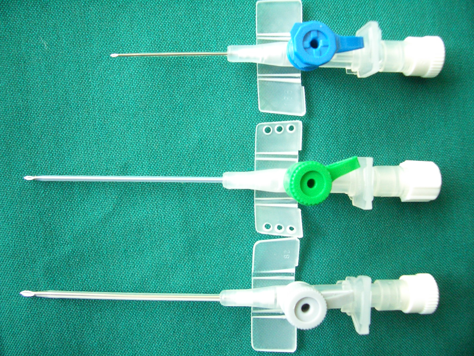 A venous cannula is inserted into a vein, primarily for the administration of intravenous fluids, for obtaining blood samples and for administering medicines. An arterial cannula is inserted into an artery, commonly the radial artery, and is used during major operations and in critical care areas to measure beat-to-beat blood pressure and to draw repeated blood samples.